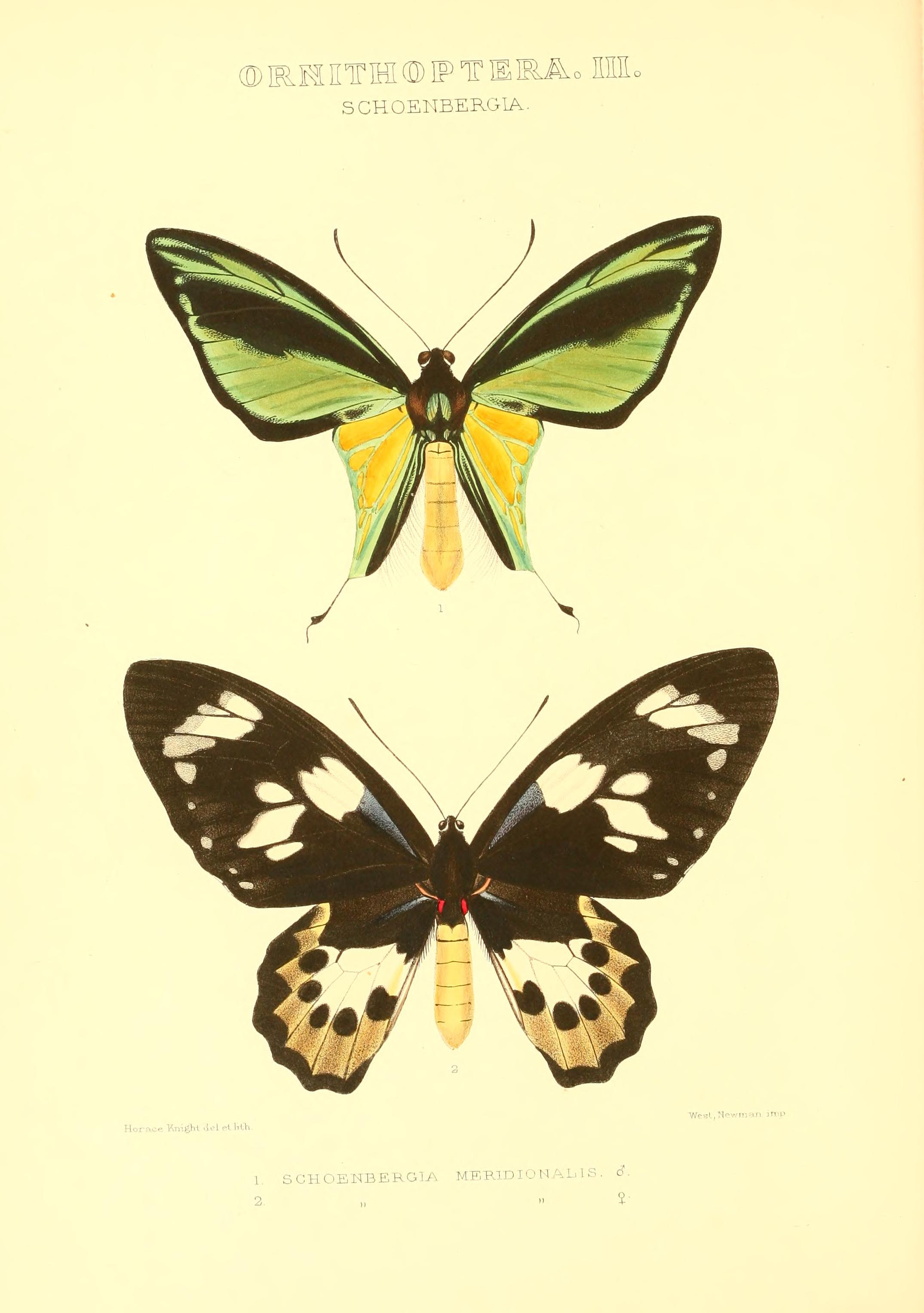 Grose-Smith, H. & Kirby, W.F. (1887-1892): Rhopalocera exotica, being illustrations of new, rare and unfigured species of butterflies London 1:x, [1-183]. Plate Ornithoptera III